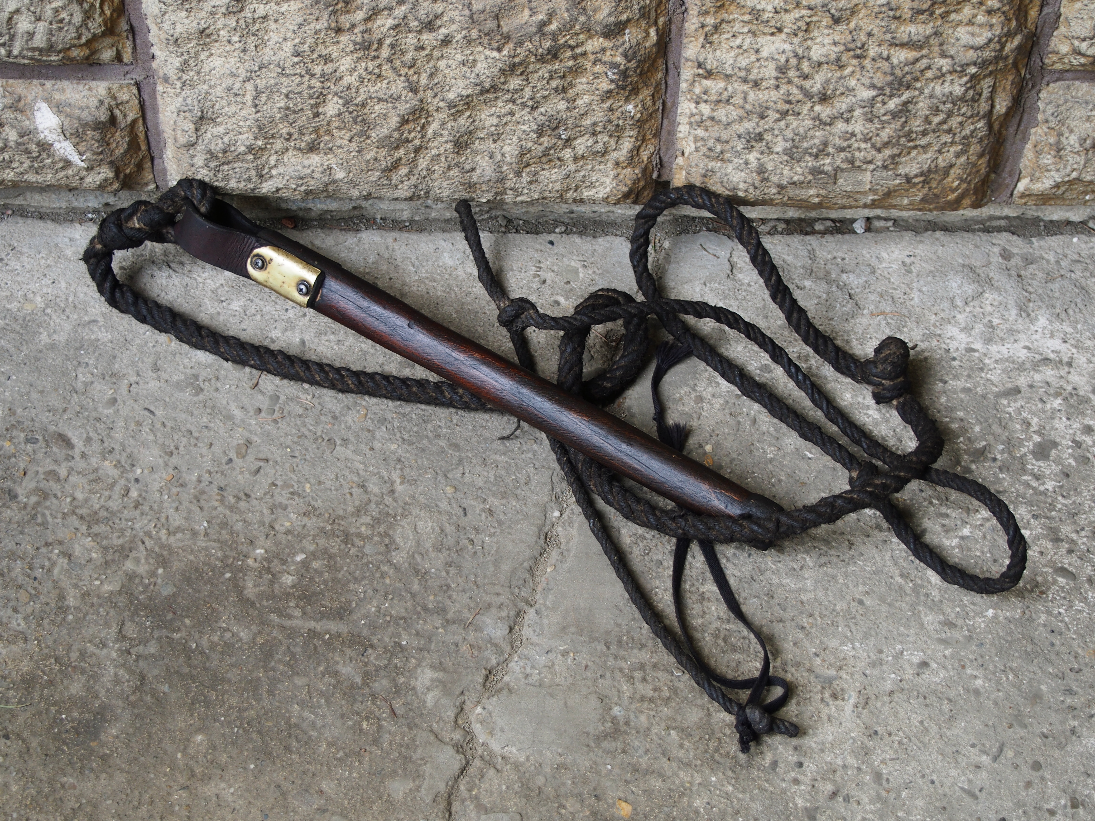 Whip used by The Gypsy visiting residents of Lednica Górna during annual Siuda Baba ritual in Lednica Górna, Poland, 2015.